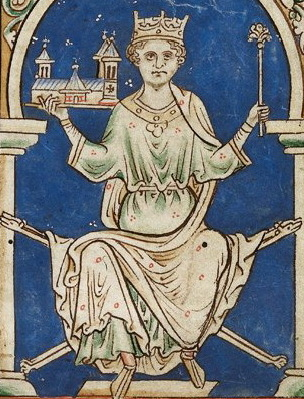 Henry III with Westminster Abbey(British Library, MS Royal 14 C VII f.9)